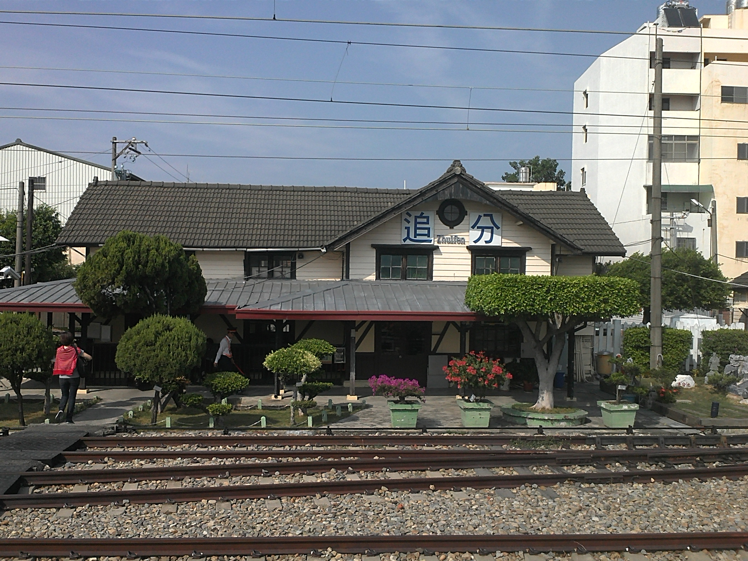 Look to the back of TRA Zhuifen Station from the platform. 中文（台灣）: 從臺灣鐵路管理局追分車站月台望向站房背面。